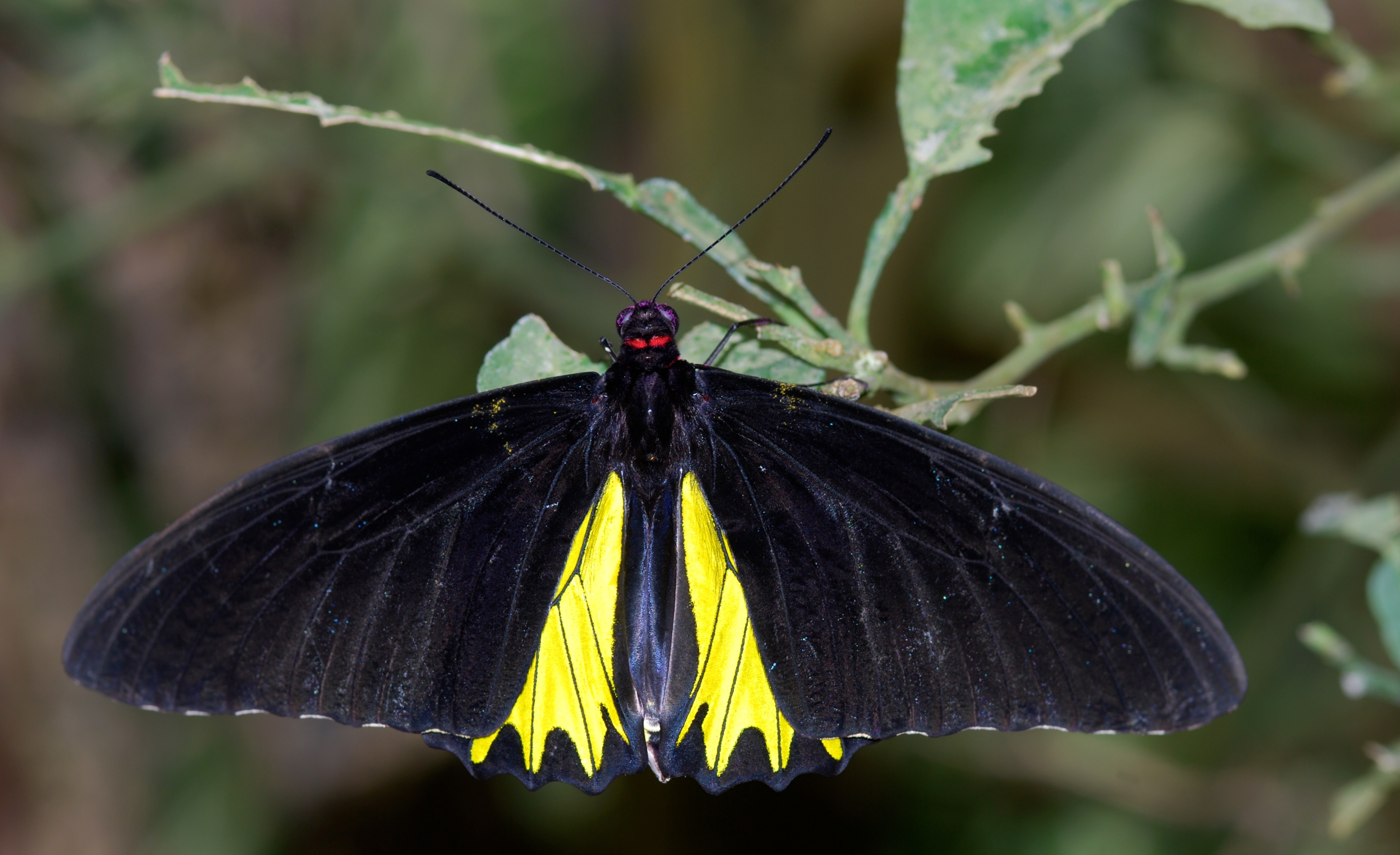 Butterfly Garden, Brinchang, Cameron Highlands, Pahang, MALAYSIA